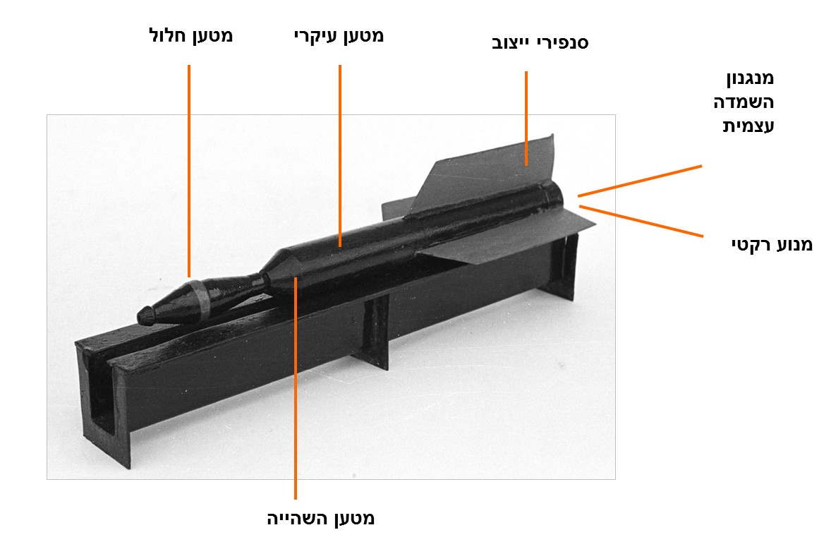 Mit'an Lamed (Laskov) rocket